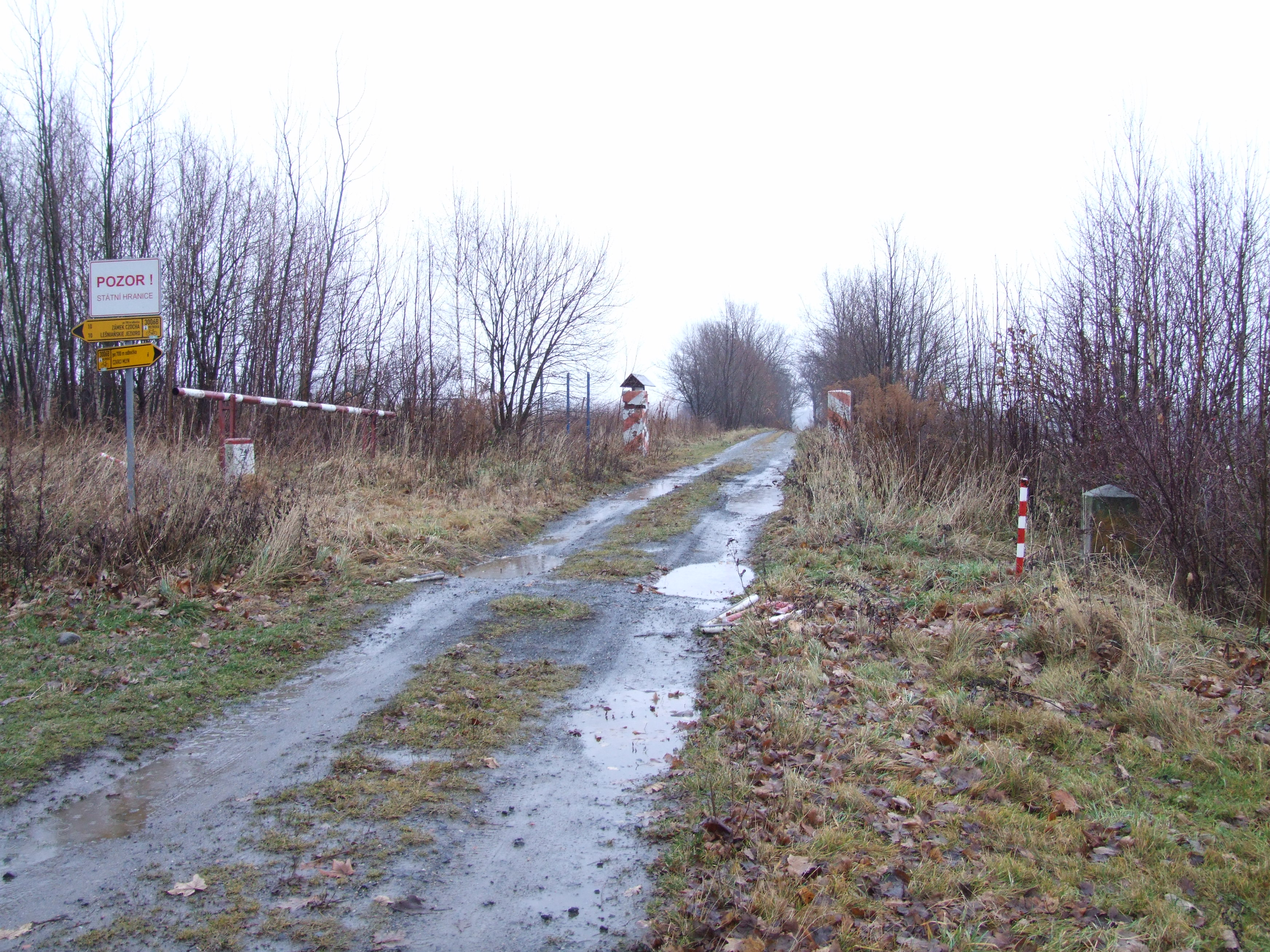 Świecie–Jindřichovice pod Smrkem border crossing